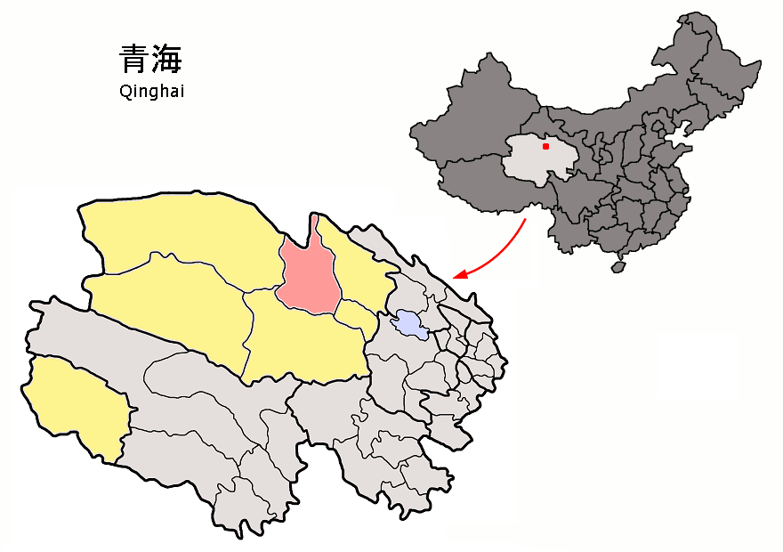 Location of Delingha County (pink) and Haixi Prefecture (yellow) within Qinghai province of China Map drawn in september 2007 using various sources, mainly : Qinghai province administrative regions GIS data: 1:1M, County level, 1990 Qinghai Counties map from "Plateau Perspectives" (the limits of some county-level subdivisions may not be accurate)